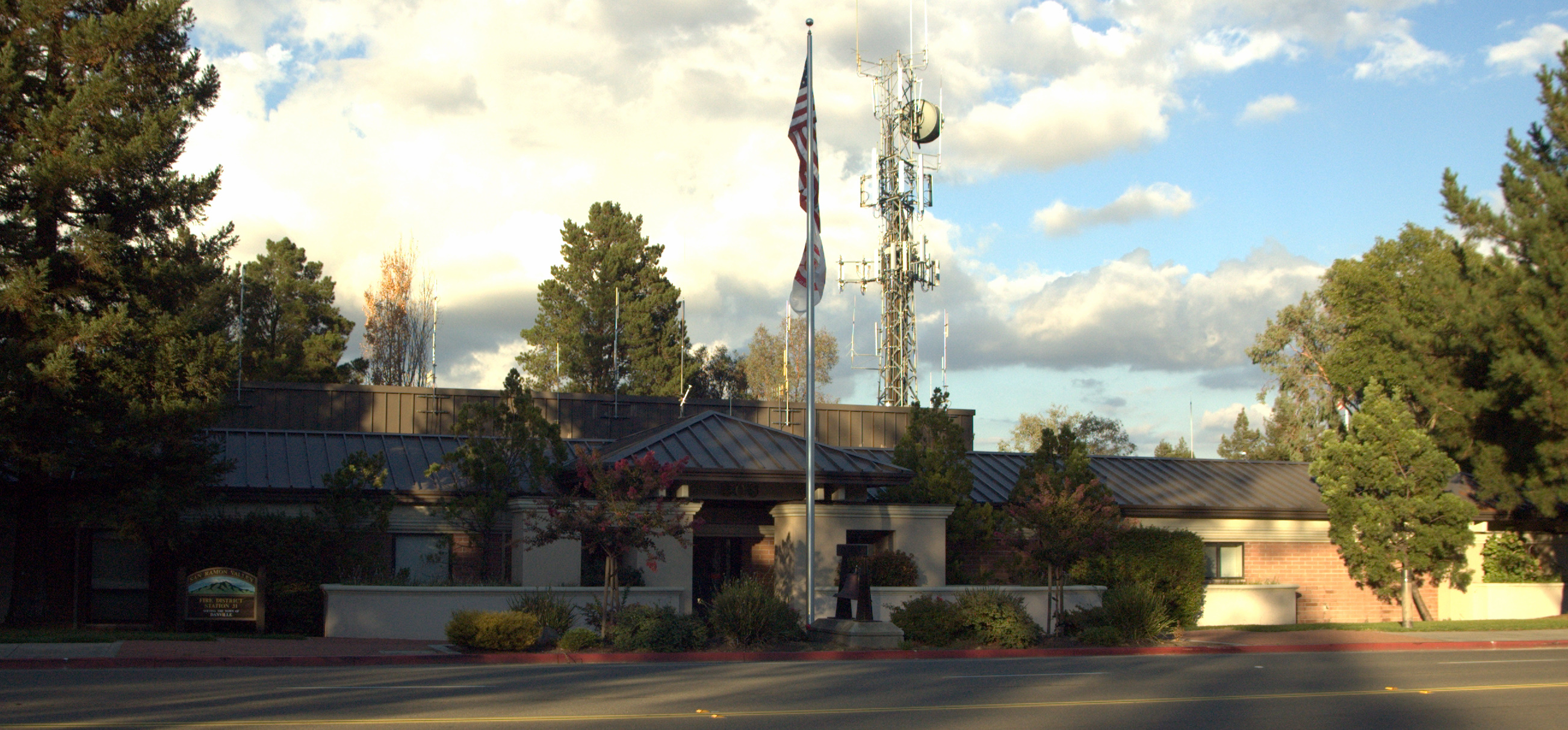 San Ramon Valley Fire Protection District. Station #31 in Danville, CA.